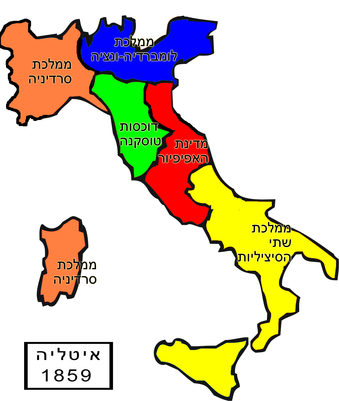 Gli Stati Italiani nel 1859 prima dell'unificazione: in arancio il Regno di Sardegna, in giallo il Regno delle Due Sicilie, in rosso lo Stato Pontificio, in blu il Regno del Lombardo-Veneto e in verde il Granducato di Toscana e i Ducati di Parma e Piacenza e di Modena e Reggio.